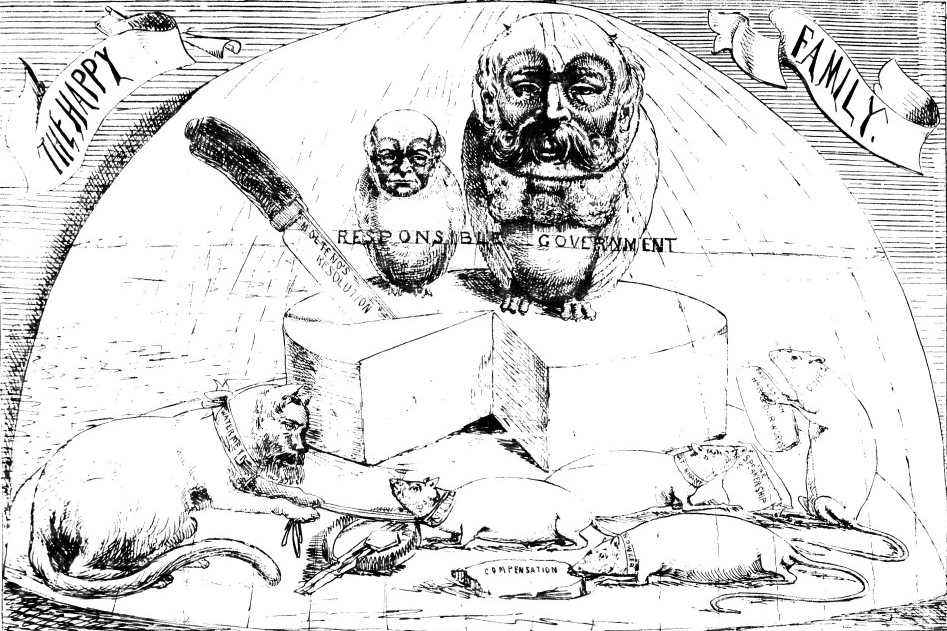 Cartoon from the reactionary Zingari newspaper, attacking John Molteno and Saul Solomon as "responsible government" owls presiding over the Cape. The cheese of the Cape government is shown being divided between the various factions by Moltenos resolution. The factions, as mice, are radical Distin who is being fed to the cat Watermeyer (Molteno's Afrikaner henchman); Northerner David Tennant who is given the Speakership; pro-British Bowker given compensation and easterner Goold given East London Harbour Works.